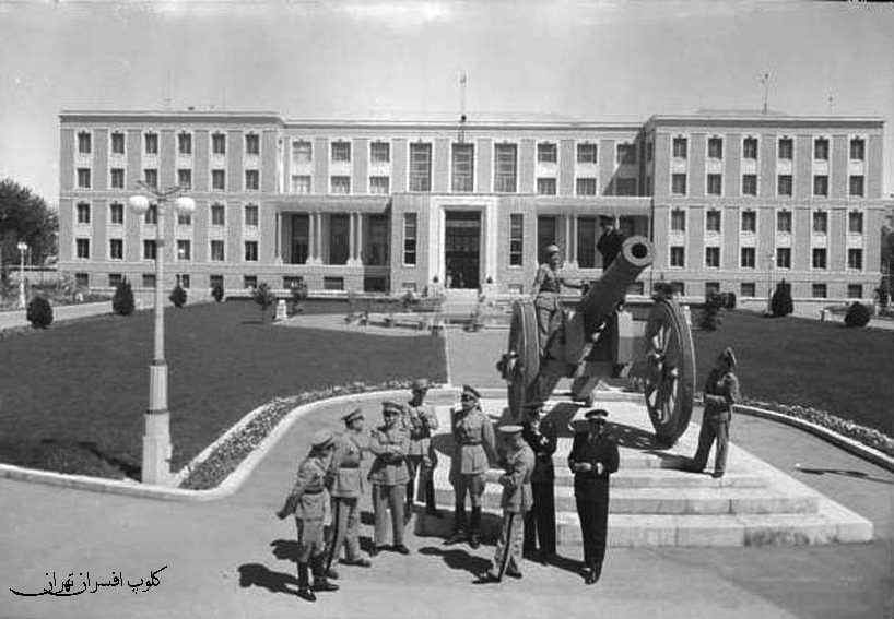 Group of high ranking army officers pose in front of a canon at Tehran Officers Club, 1960s